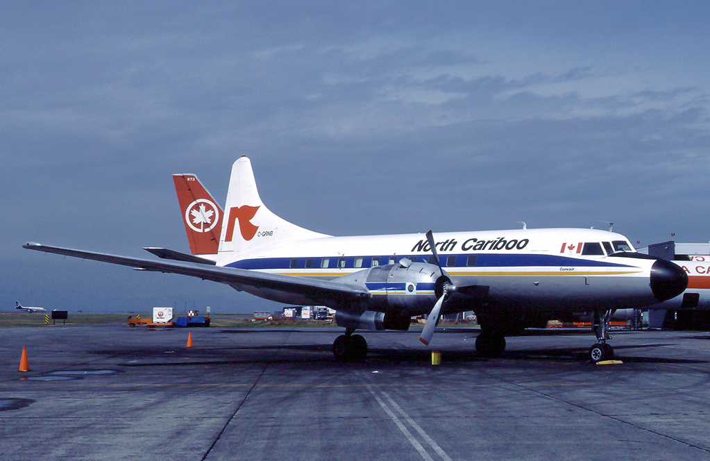 North Cariboo Air Convair 440-98 Metropolitan C-GRNB at Vancouver Intnational Airport